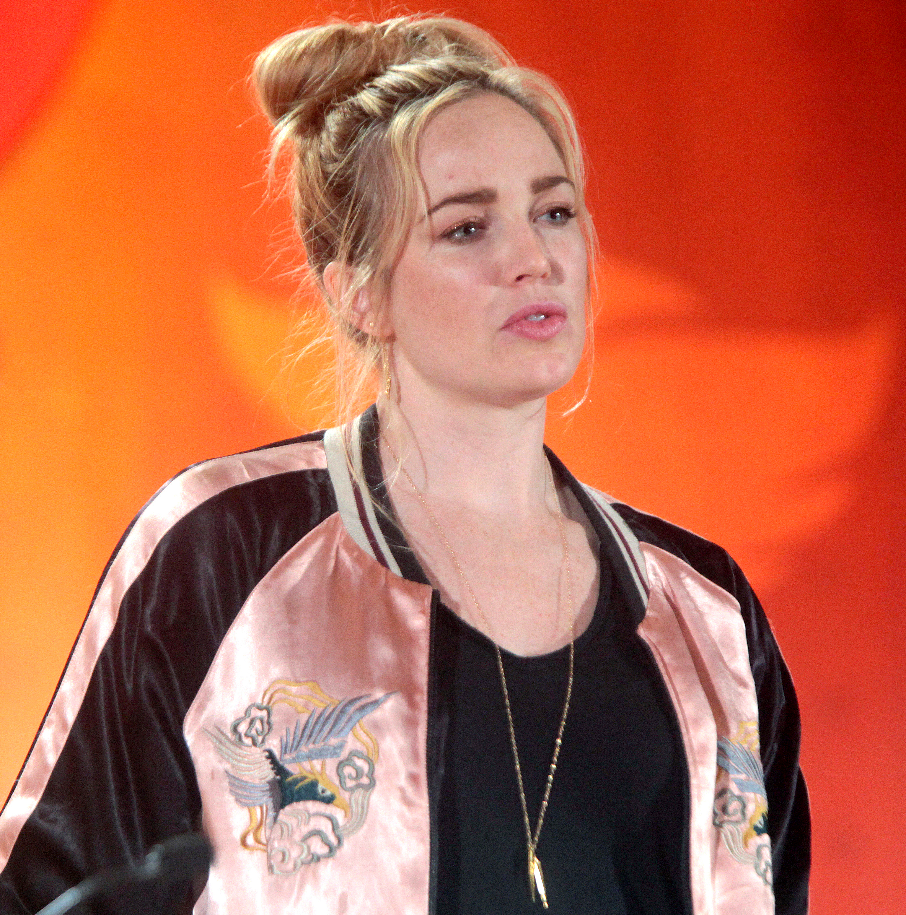 Caity Lotz speaking at the 2016 Phoenix Comicon at the Phoenix Convention Center in Phoenix, Arizona.